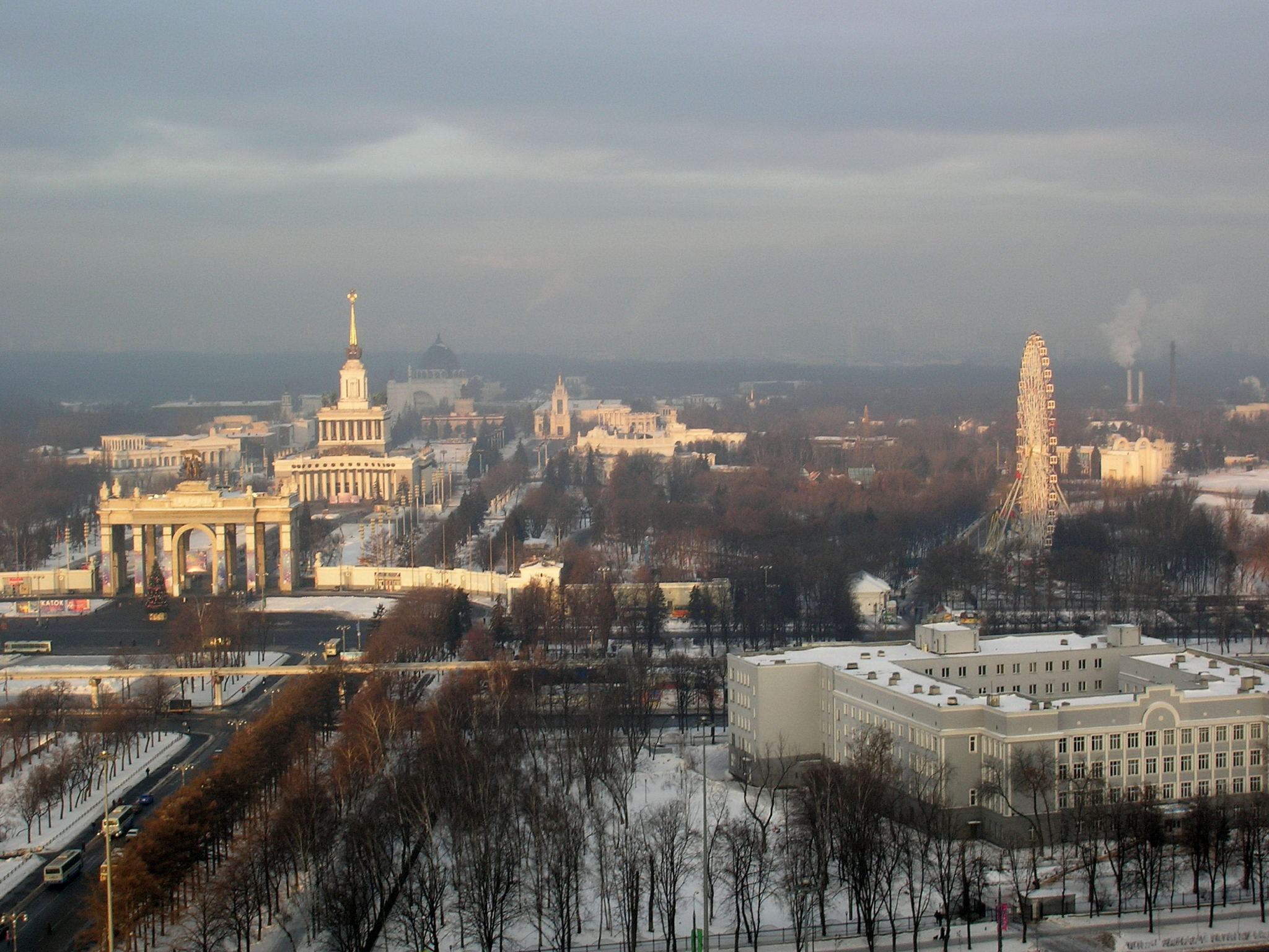 All-Russian Exhibition Centre, Moscow